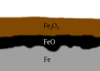 The structure of iron oxides composing rust.